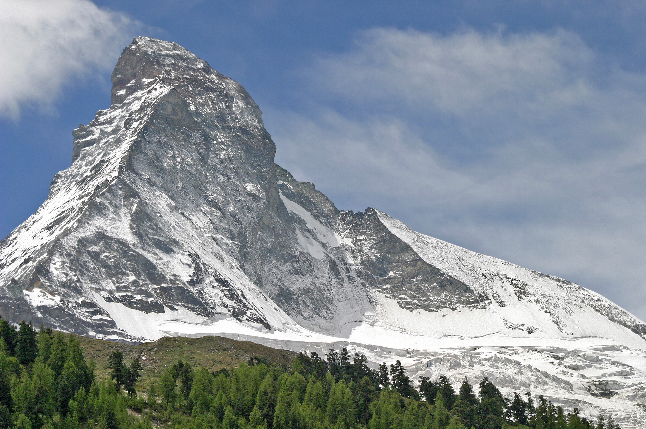 The Matterhorn is one of the most famous mountains in the world, with a height of 4.478 meters.